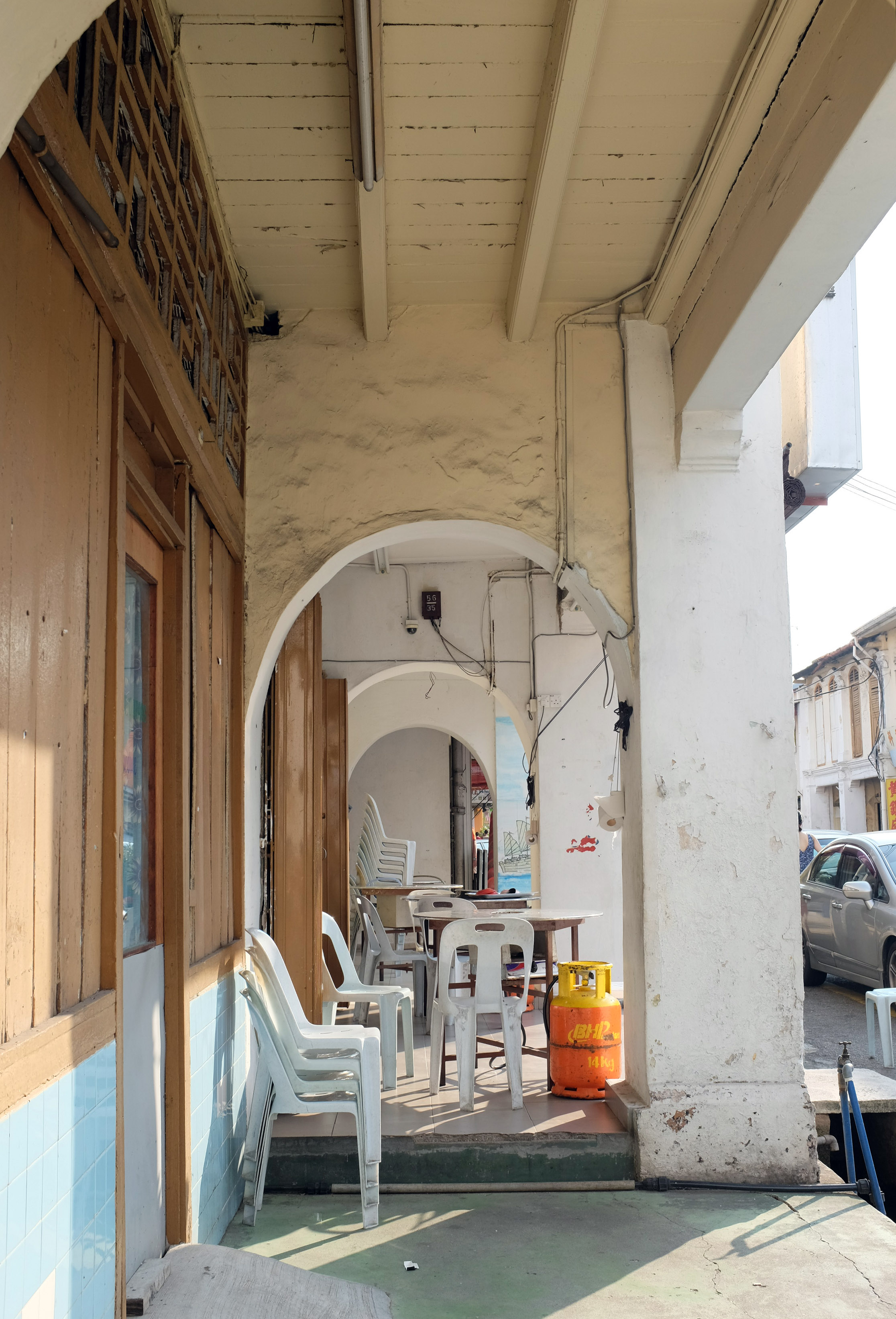 View down a five foot way in Melaka, Malaysia